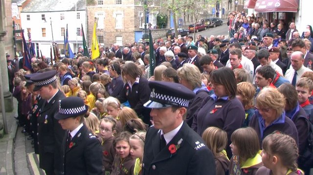 Tiverton : Angel Hill on Remembrance Sunday From Brownies, Cubs, Sea Cadets, Army Cadets Scouts, and all things Robert Baden-Powell, are here to remember those who make the ultimate sacrifices.